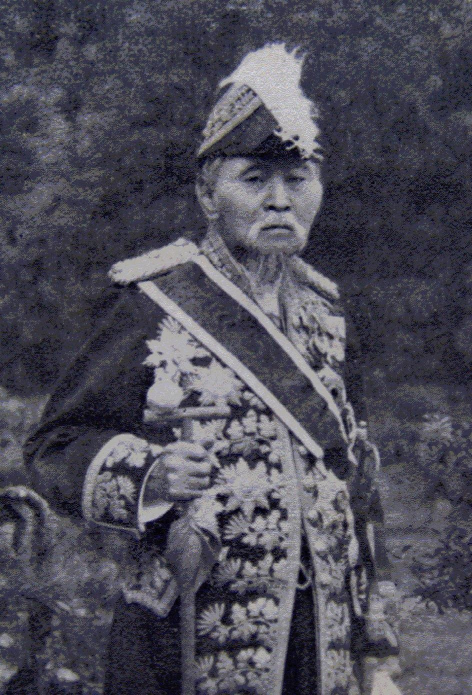 Hijikata Hisamoto with Type 1911 Court office uniform